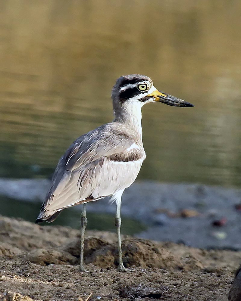 Great Stone-curlew, Yala National Park, Sri Lanka.